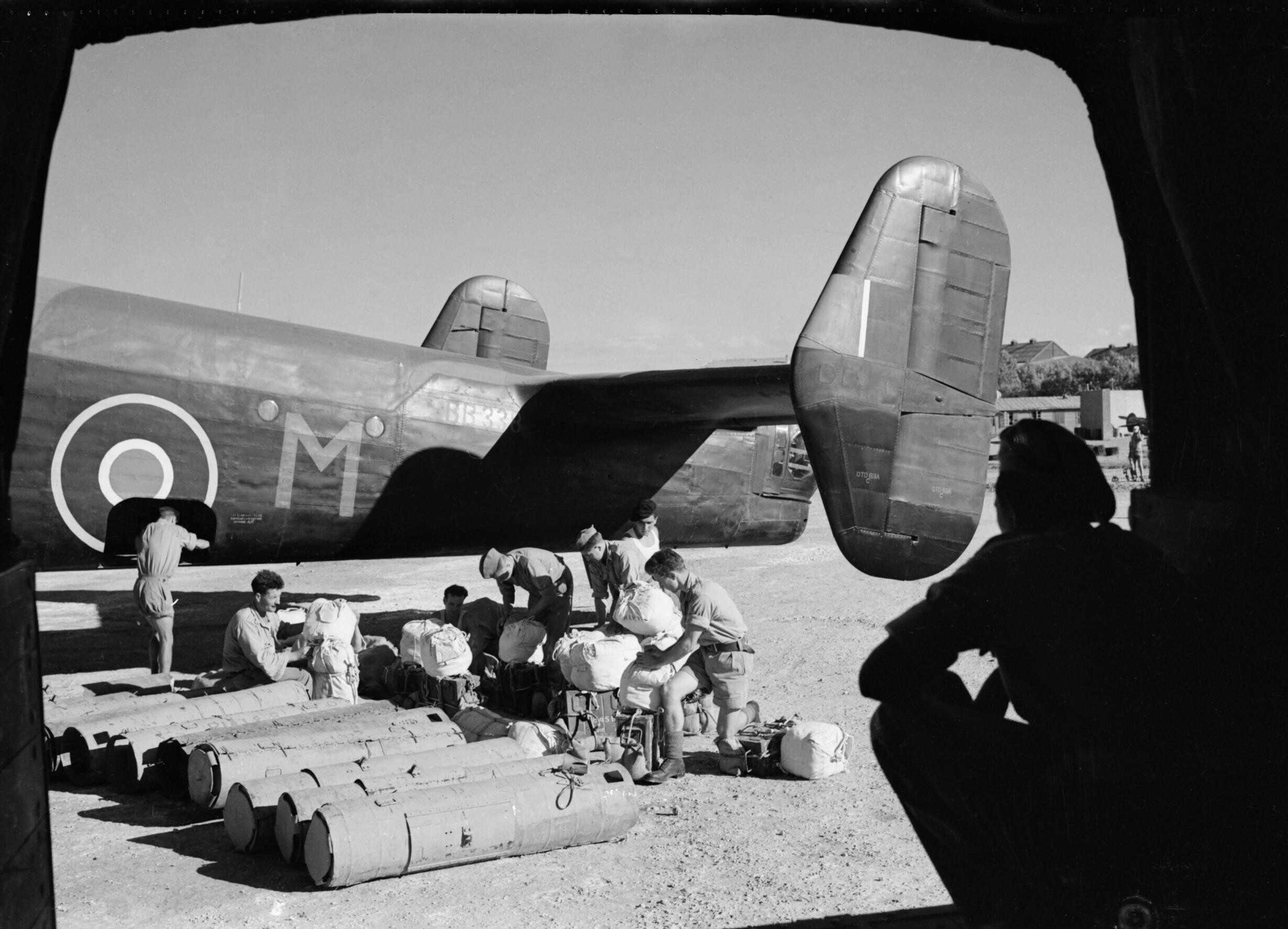 Royal Air Force- Italy,the Balkans and South-east Europe, 1942-1945. British soldiers and Yugoslav partisans transferring parachute containers and bundles of supplies from a lorry to Handley Page Halifax Mark II, BB338 'M' of No. 148 (Special Duties) Squadron RAF at Brindisi, Italy, before it takes off on a supply dropping mission to the Yugoslav National Liberation Army. BB338 was lost while returning from a similar operation on 5 December 1944.